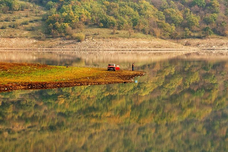 The dam near Aheloi, Bulgaria